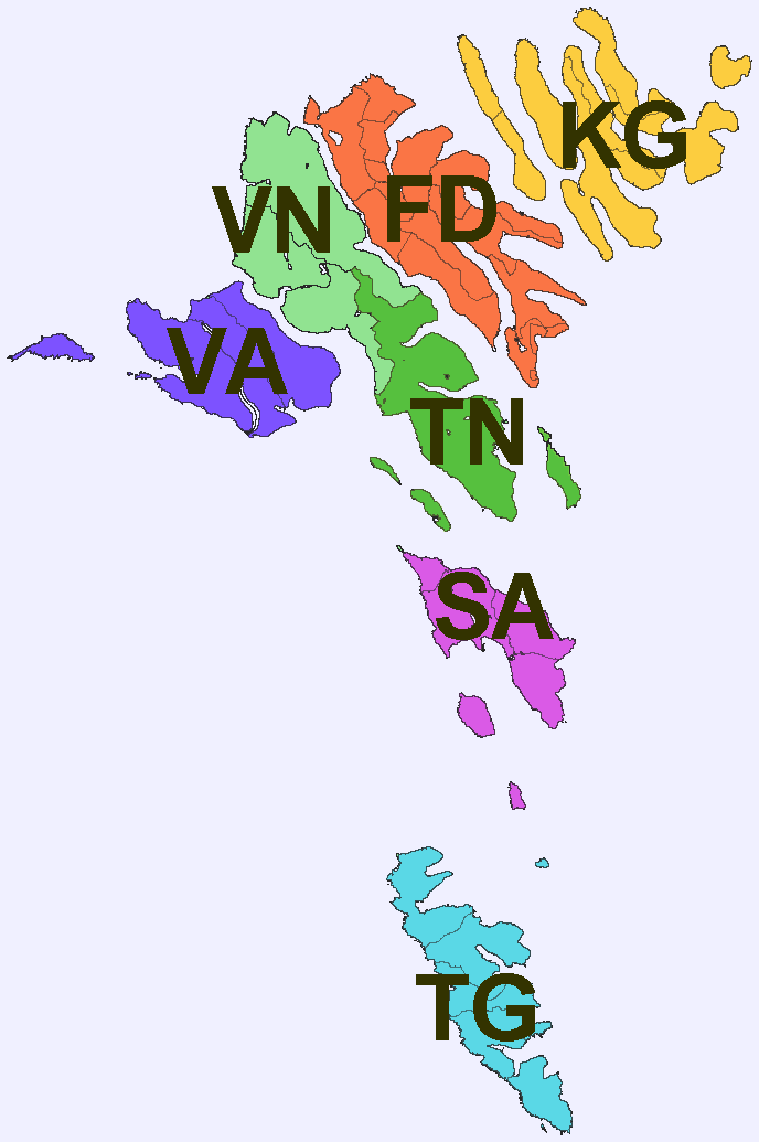 Shipping Register Codes of the Faroe Islands FD = Fuglefjord (Fuglafjørður, Eysturoy region) KG = Klaksvig (Klaksvík, Norðoyar region) SA = Sandø (Sandoy region) TG = Trangesvåg (Trongisvágur, Suðuroy region) TN = Thorshavn (Tórshavn, South Streymoy region) VA = Vågø (Vágar region) VN = Vestmannahavn (Vestmanna, North Streymoy region)